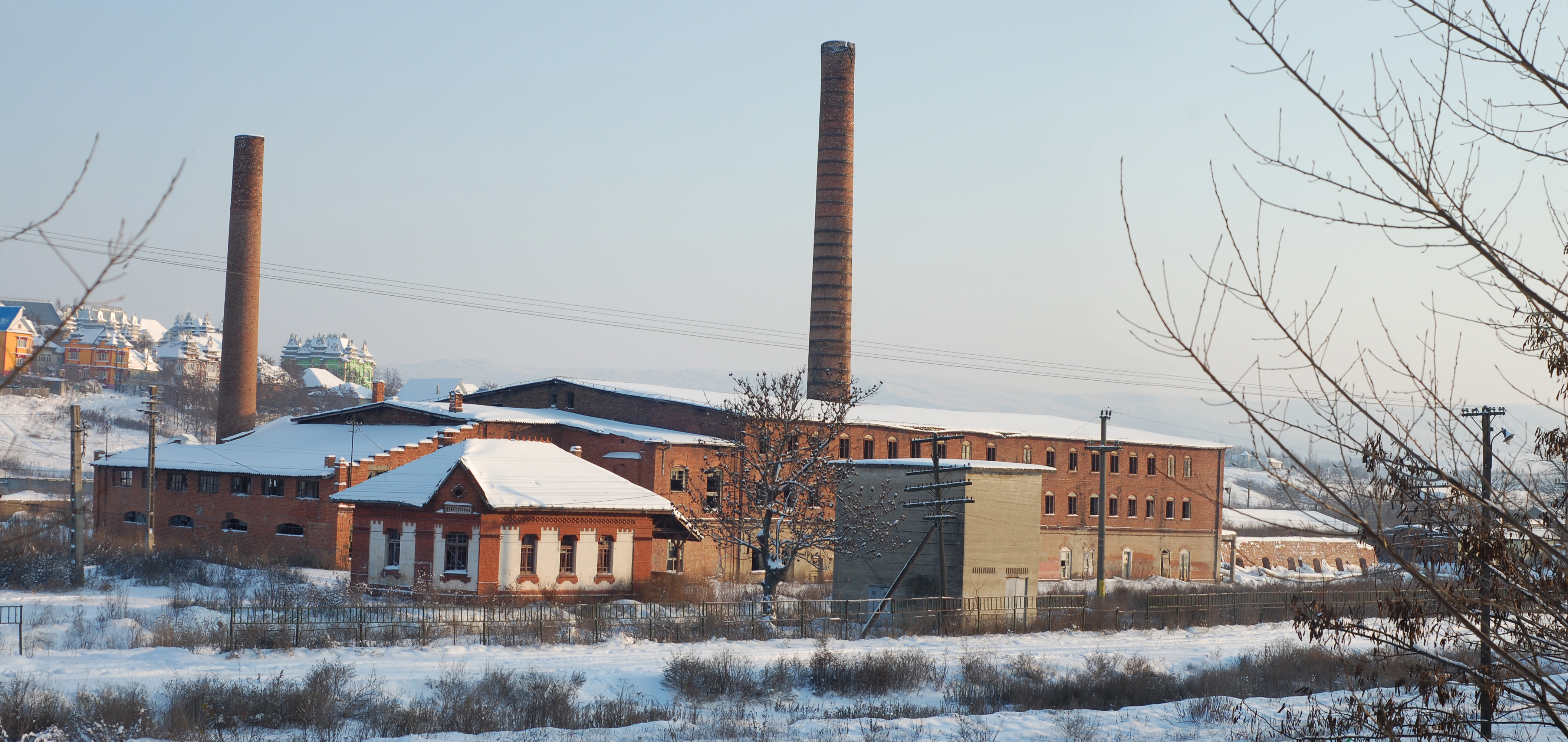 Ciurea brick factory,Iaşi county, built in 1891. Photo: 19 December 2009.